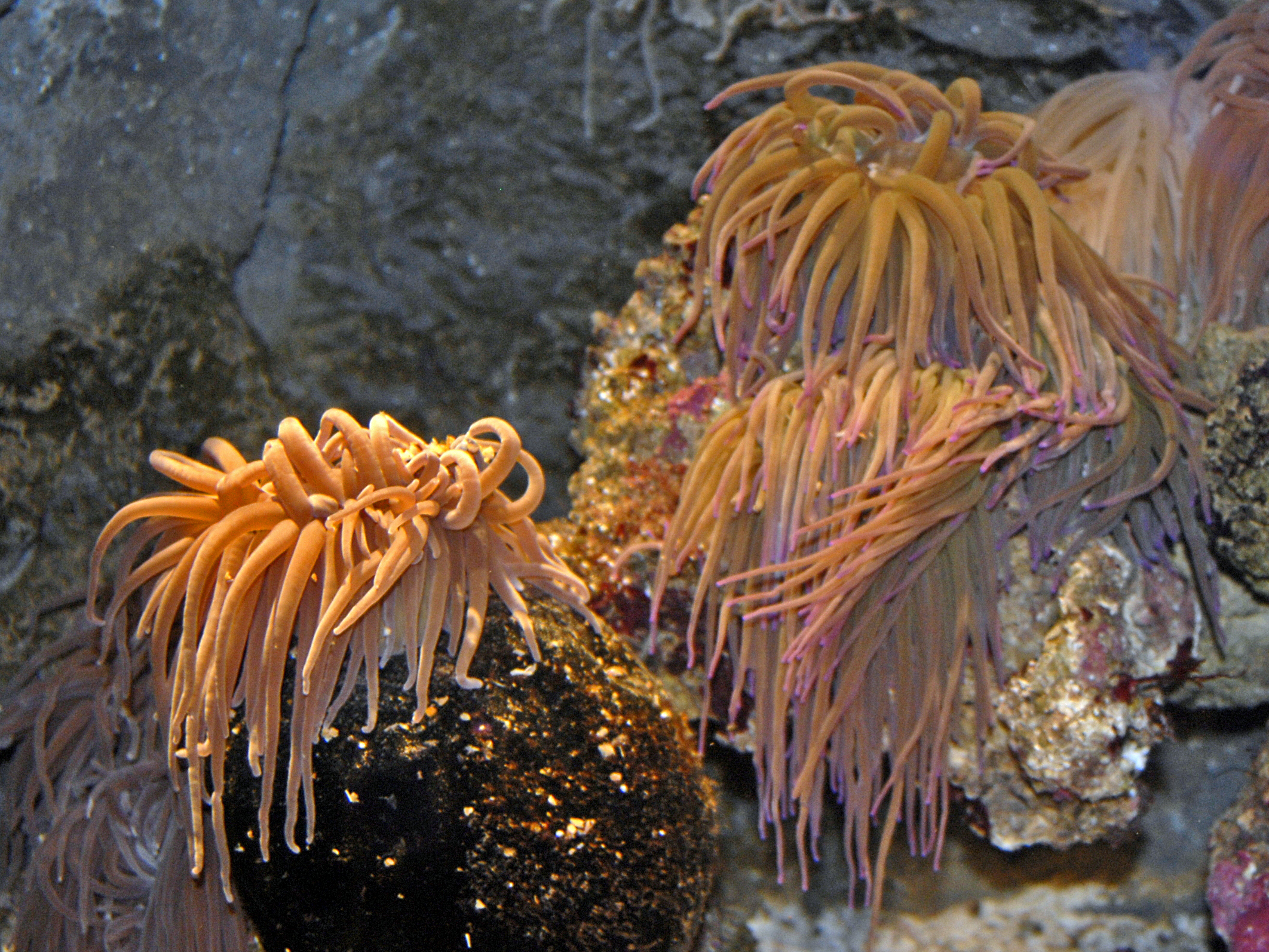 Anemonia viridis. On display at the Aquarium of Genova